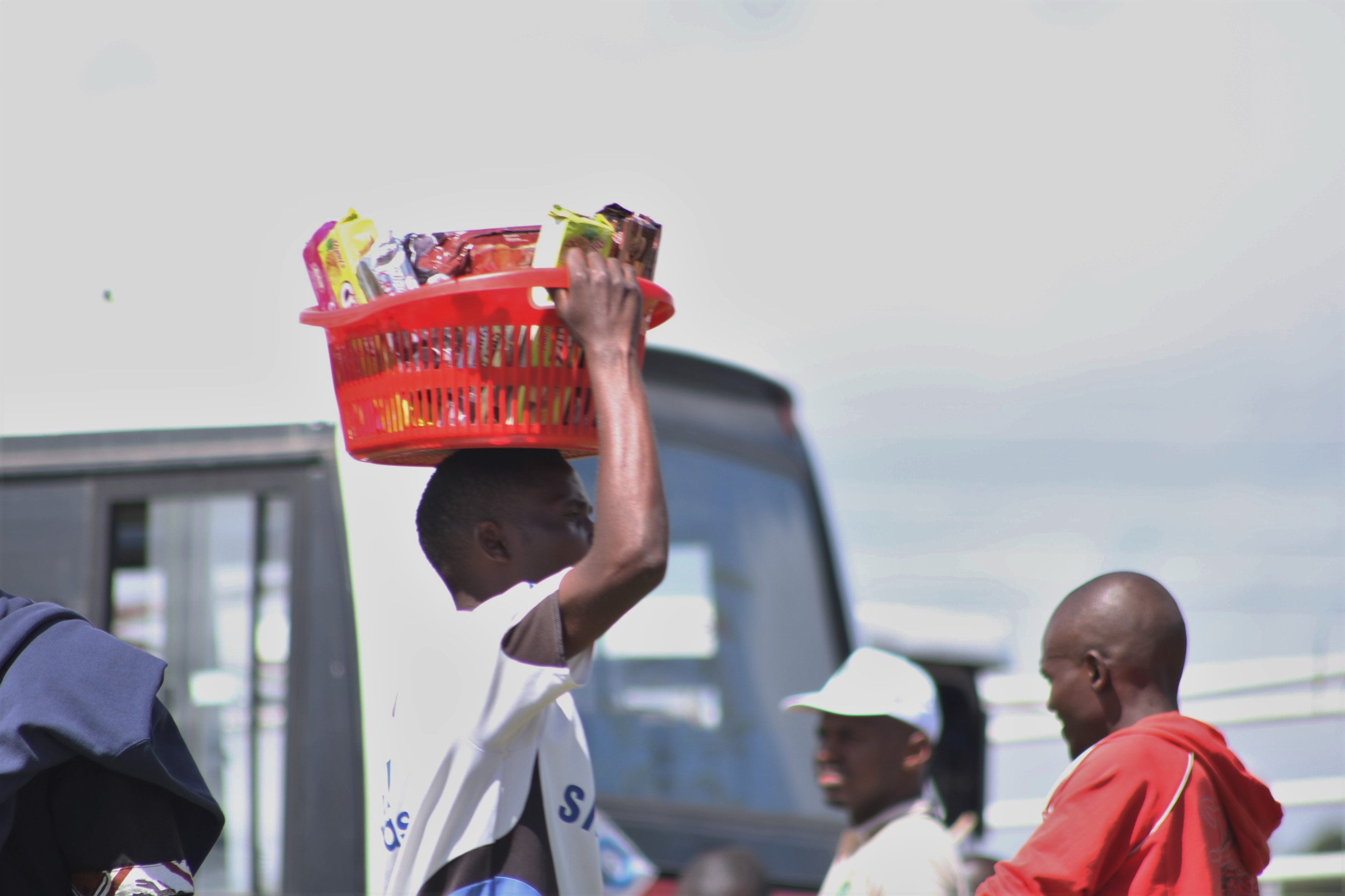 This is an image of "African people at work" from Tanzania